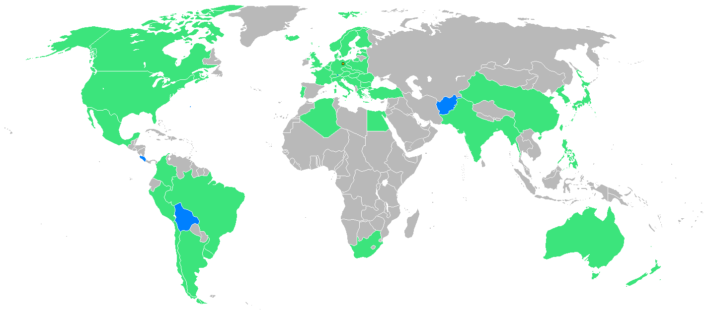 Countries which participated in the 1936 Summer Olympics, derived from blank world map. Blue = Participating for the first time Green = Have previously participated. Yellow square is host city (Berlin).